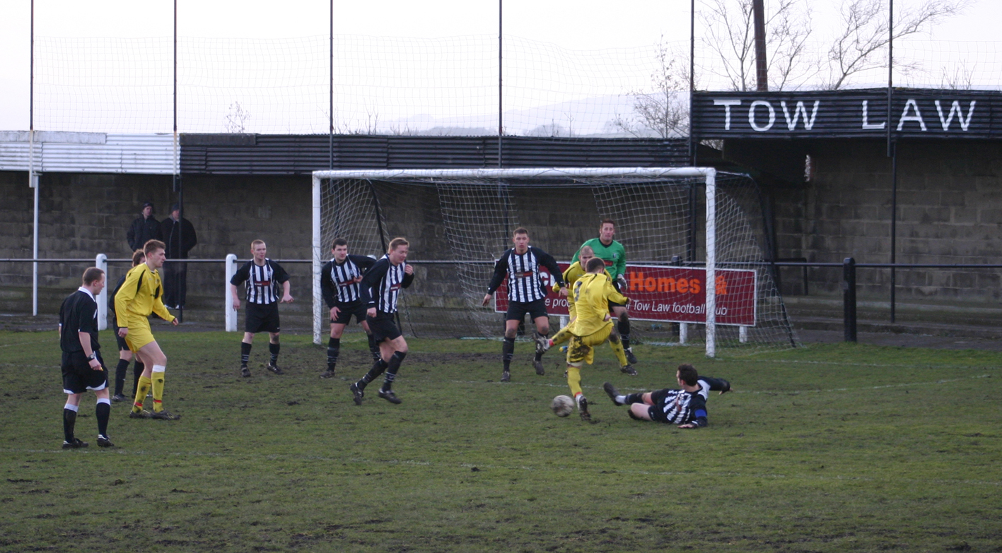 Craig McFarlane beats the diving tackle of a Tow Law defender and fires the ball into a crowded goalmouth. The ball rebounded to Phil Bell whose shot hit a Tow Law player and flew over the bar.